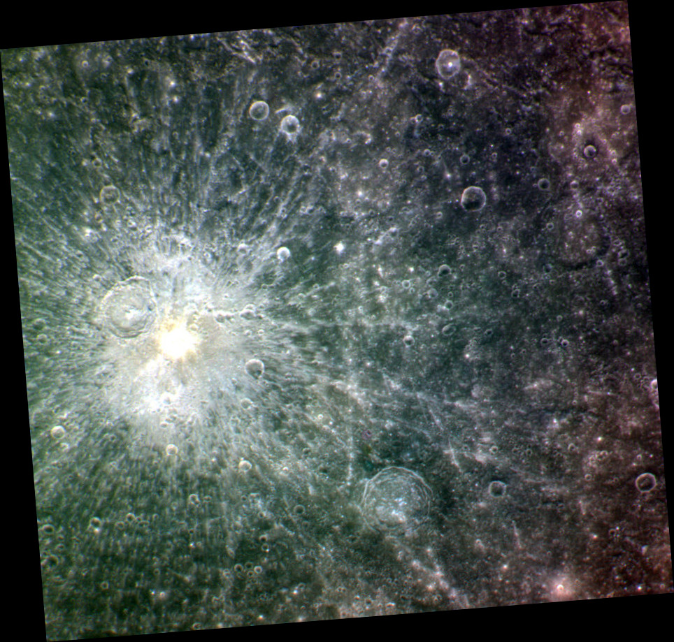 Nureyev crater on Mercury with extensive ray system. Approximate color representation combining three images acquired by MESSENGER Wide Angle Camera (EW1055177909I, EW1055177905F, EW1055177901G) with I (996.2 nm), G (748.7 nm), and F (433.2 nm) filters. Combined in GIMP software as RGB (Red-Green-Blue), and then rotated so that north is up. Statistics for I image: Emission Angle: 16.2 Incidence Angle: 11.9 Latitude: 11.8 Longitude: 189.3 Phase Angle: 28.1